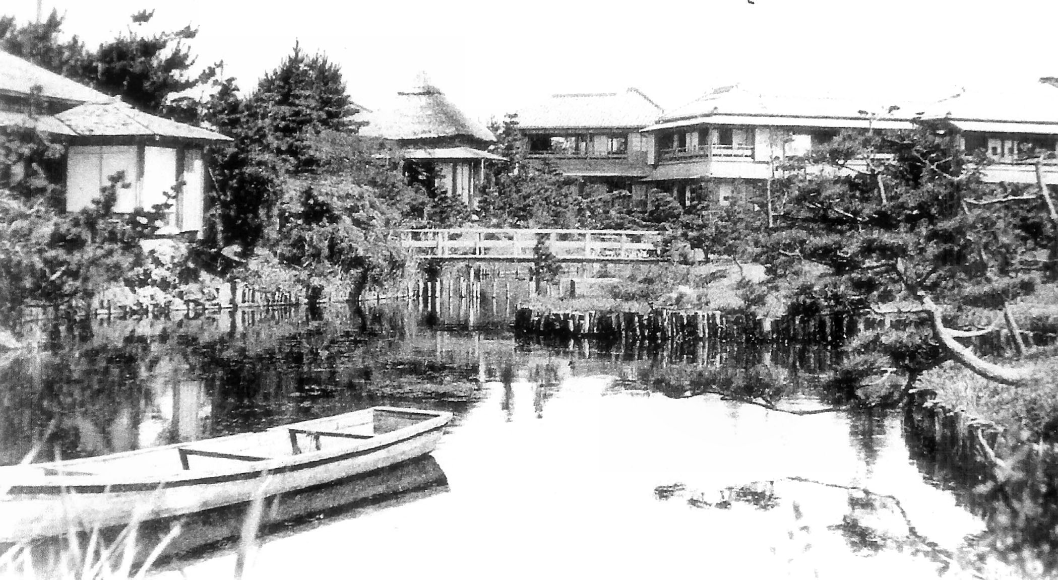 Japanese postcard showing a view of the garden of Azumaya Ryokan in Kugenuma, Fujisawa City, Kanagawa Prefecture